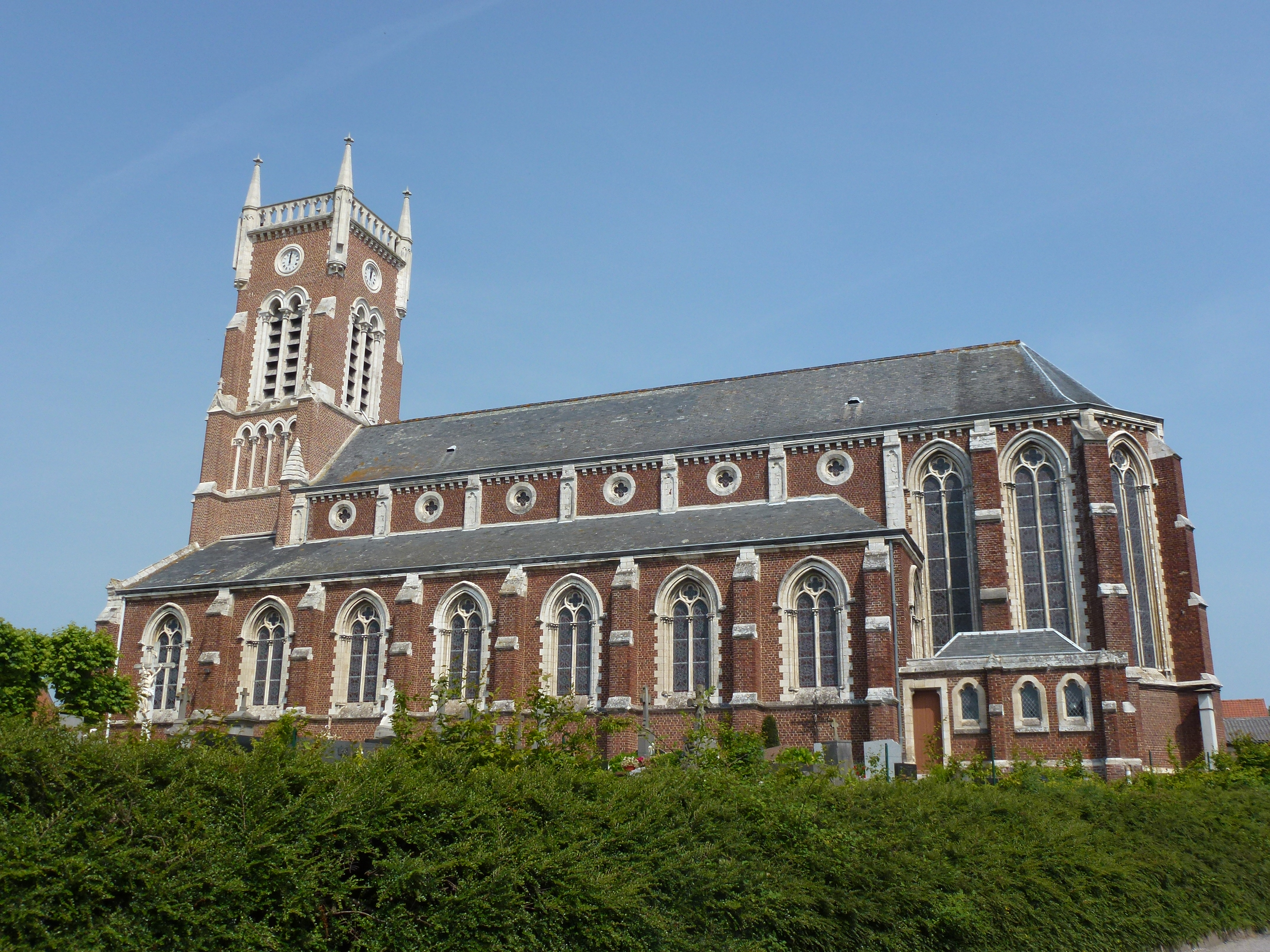 Roquetoire (Pas-de-Calais, Fr) église Saint Michel coté sud